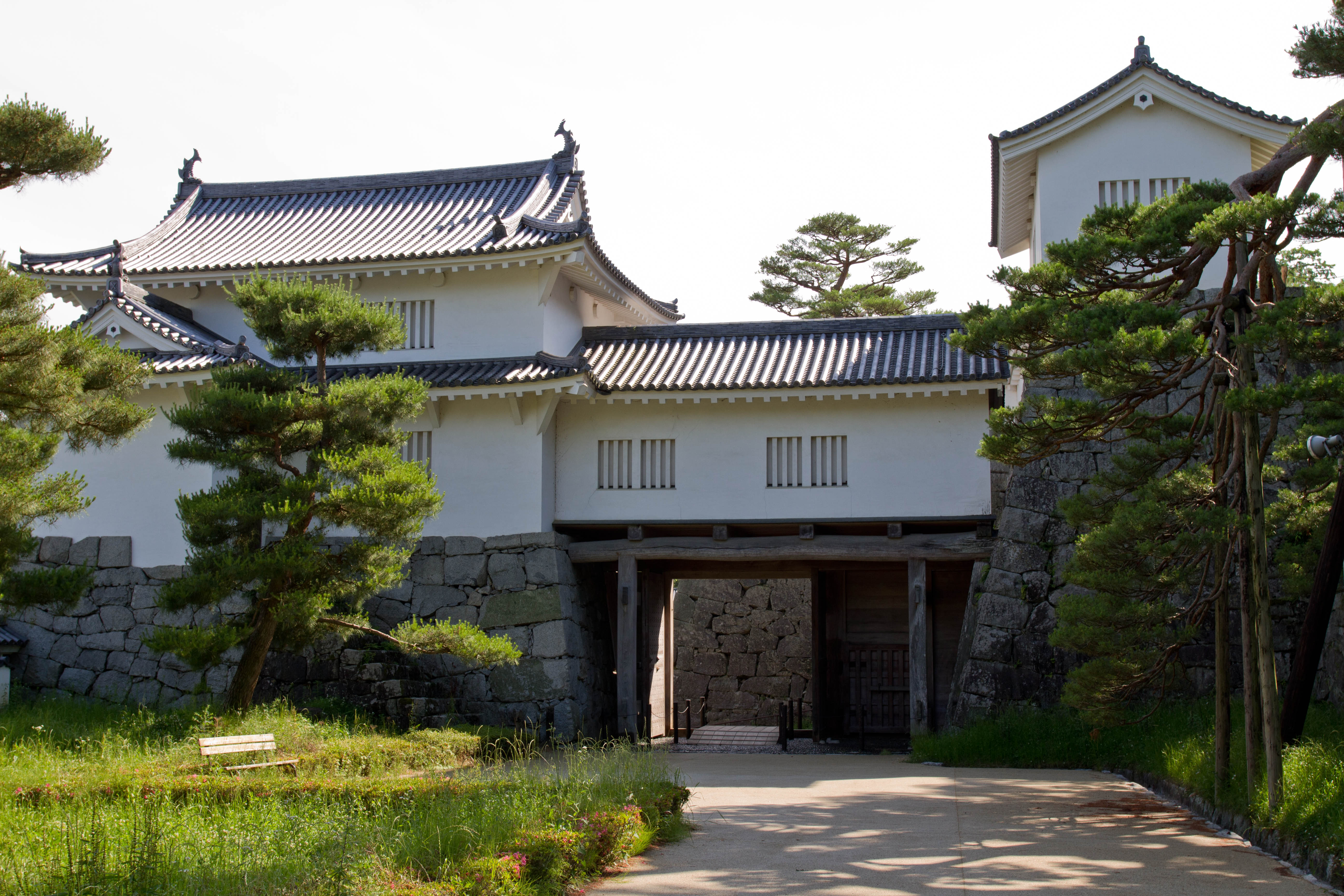 Minowa Gate of Nihonmatsu Castle